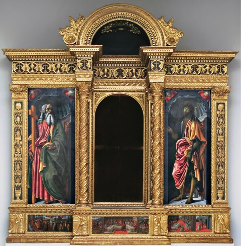 Francesco Botticini Tabernacle of the Sacramento. Empoli Museum